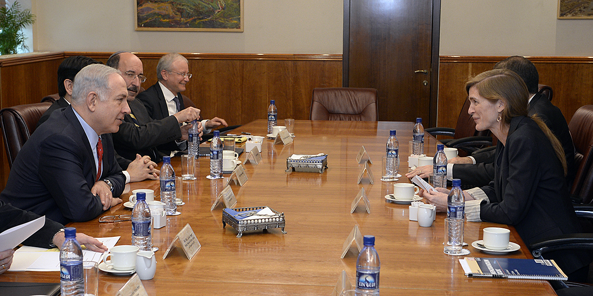 "From the Real UN to the Model UN" - U.S. Ambassador to the UN Samantha Power's visit to Israel.